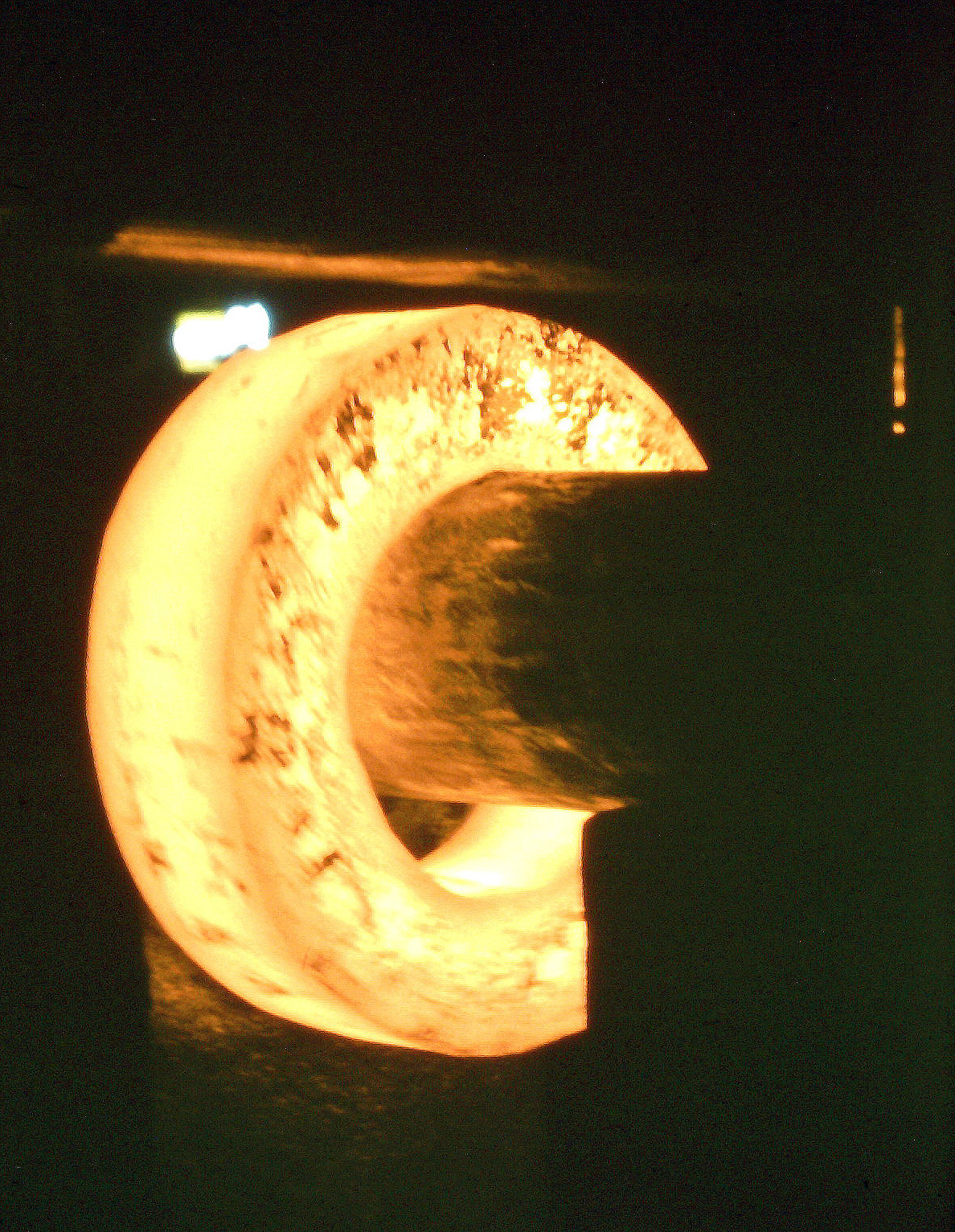 Ring forging in Diósgyőr Steelworks, around 1979, Miskolc, Hungary